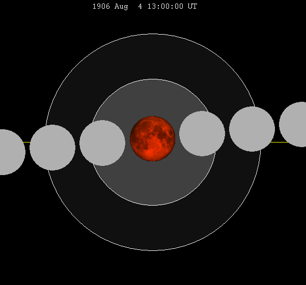 lunar eclipse chart of moon's penumbral lunar eclipse path through the earth's shadow. thumb